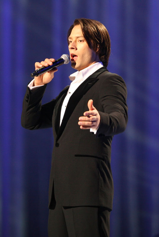 Nobel Peace prize Concert 2008, Oslo Spektrum, Il Divo